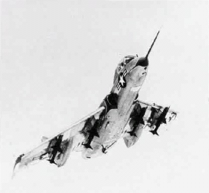 A Vought F7U Cutlass armed with four Sparrow air-to-air missiles.